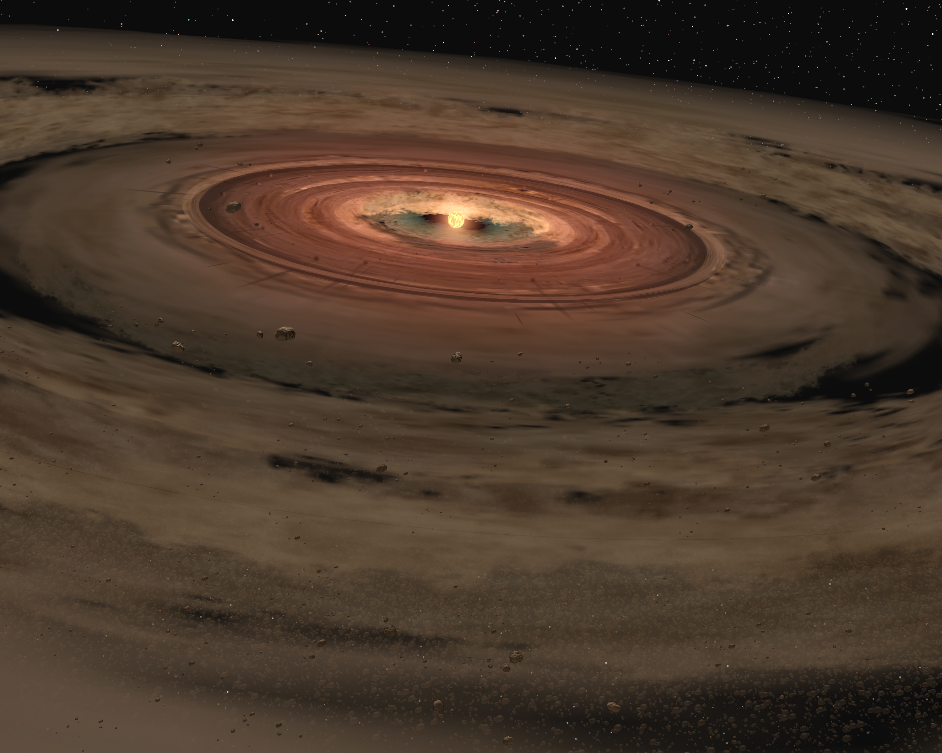 Artist's conception of circumstellar disk around AA Tauri